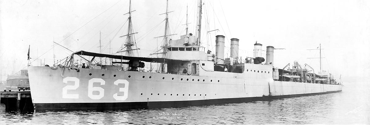 Removed caption read: Photo # NH 102902 USS Laub at the Boston Navy Yard, 4 June 1919. Comment : She was transferred to Britain as HMS Burwell (H94) in 1940.